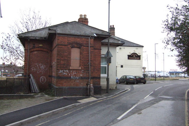 The Nags Head, Clowne An outpost of the Lancashire brewer, Thwaites lies behind the booking hall of the former Great Central Railway's station closed in 1939 - albeit the Flying Scotsman did go underneath it in 1963.